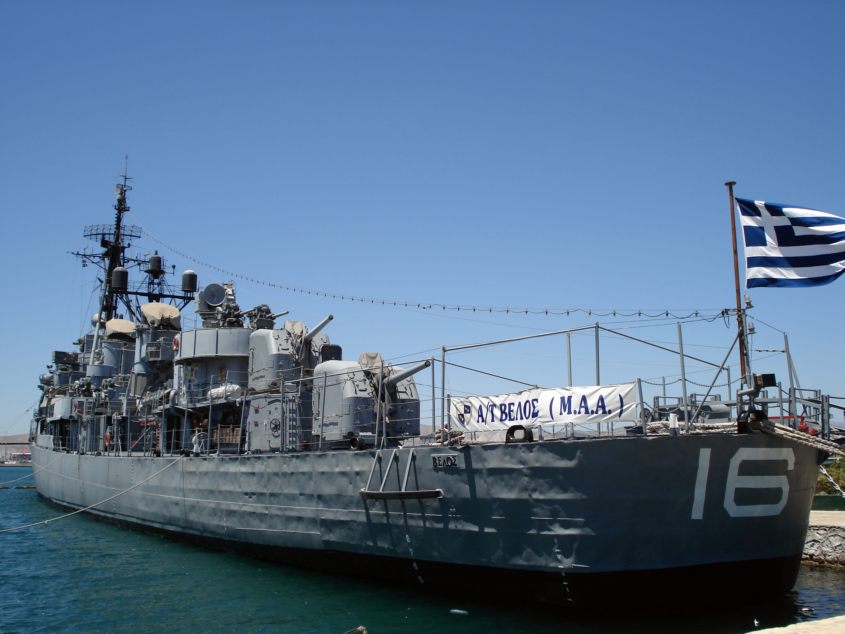 Destroyer Velos D16 formerly USS Charrette as floating museum photo taken by me in 21 January 2006. On board: Museum of Antidictatorship Struggle